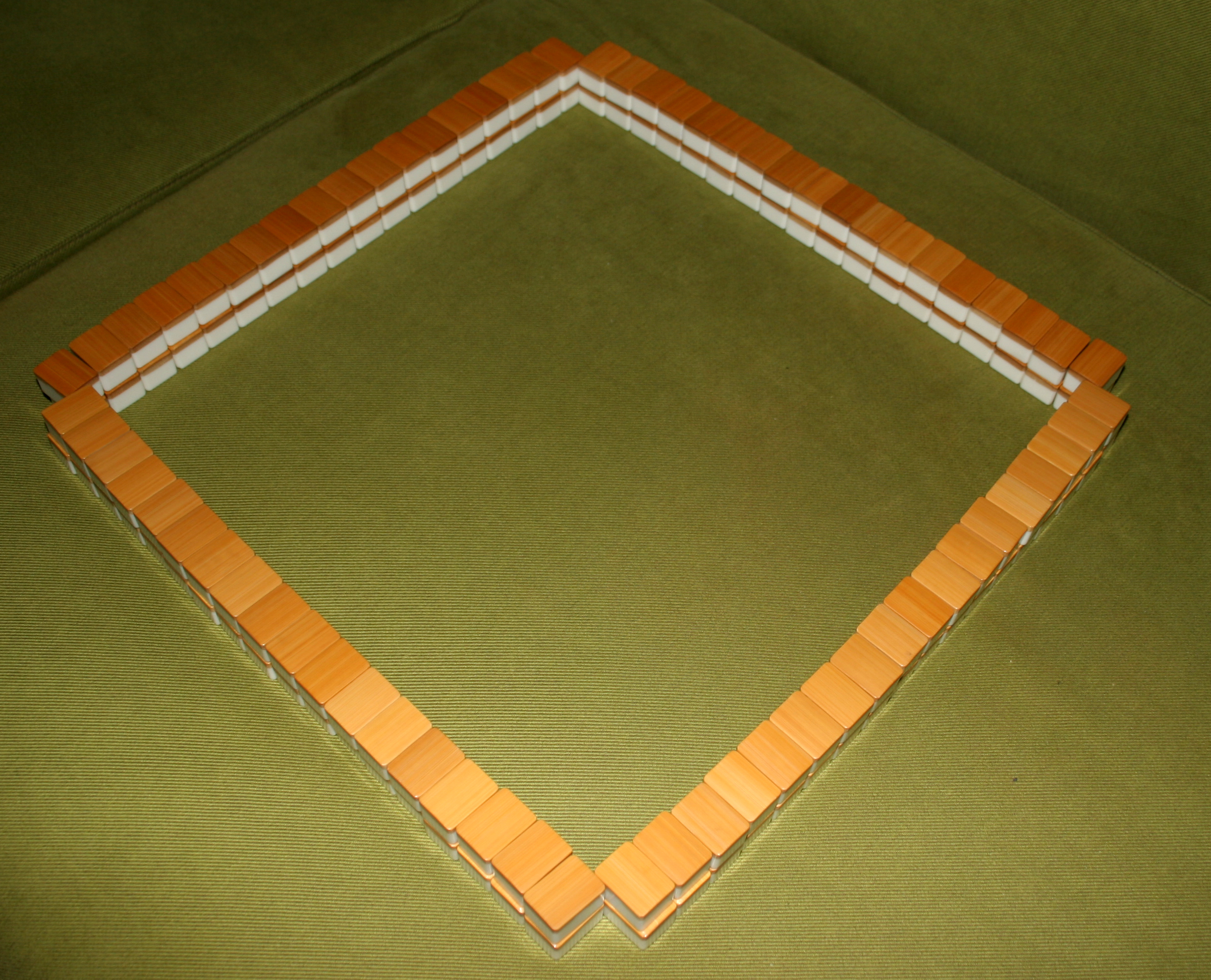 Setup of a Mahjong wall